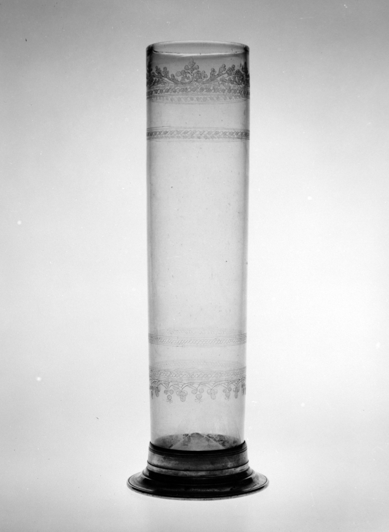 Bohemian; Pole glass (Stangenglas); Glass